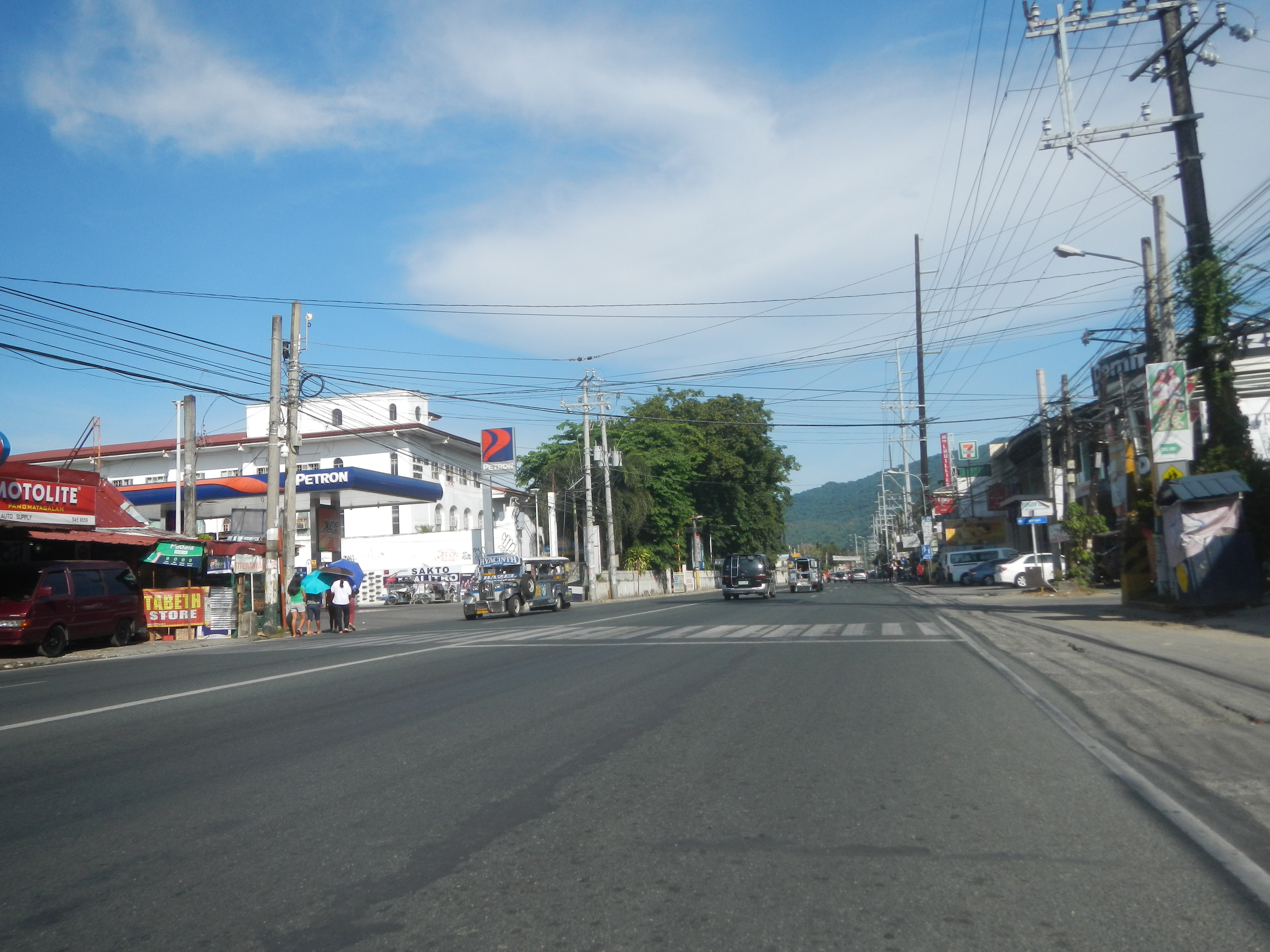 Halang Bridge, Calamba City Planbank Cannosa Bridge, Calamba City Barangays Halang, Calamba Halang 14°11'43"N 121°10'19"E Bucal Calamba, Laguna Maharlika Highway (Calamba City section) Pan-Philippine Highway (Note: Judge Florentino Floro, the owner, to repeat, Donor Florentino Floro of all these photos hereby donate gratuitously, freely and unconditionally Judge Floro all these photos to and for Wikimedia Commons, exclusively, for public use of the public domain, and again without any condition whatsoever).